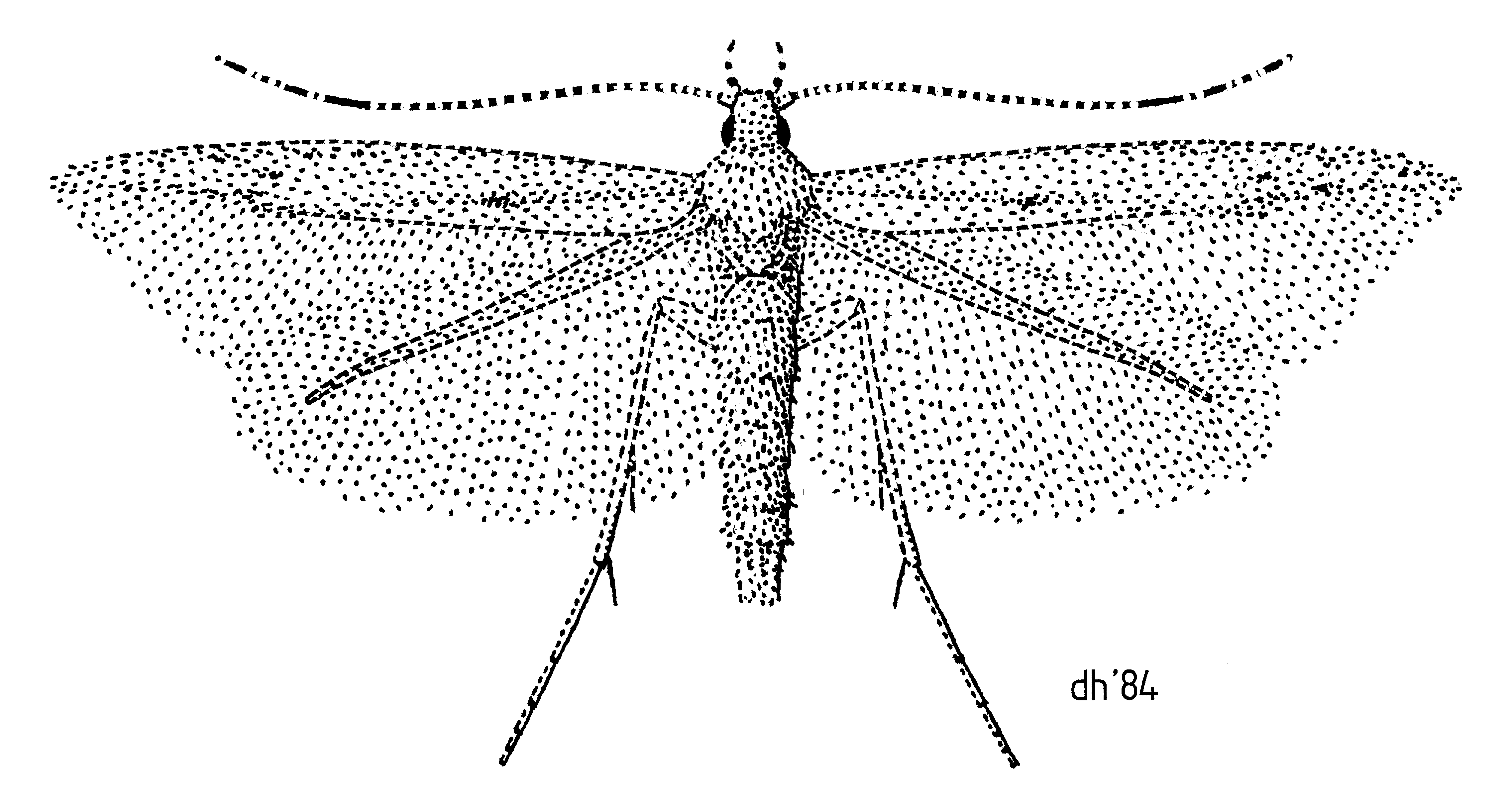 (Lepidoptera: Batrachedridae) Batrachedra arenosella illustrated by Des Helmore.